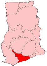 Map of Ghana showing Central region.